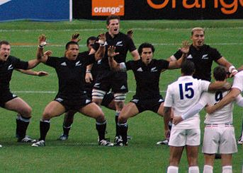 All Black Captain Richie McCaw leading the Haka